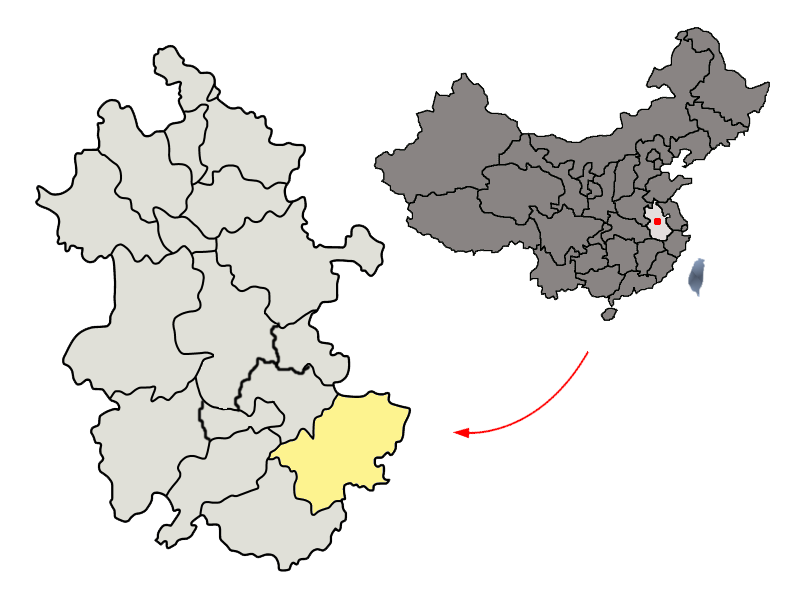 Location of Xuancheng Prefecture (yellow) within Anhui Province of China Map drawn in december 2007 using various sources, mainly : Anhui Province administrative regions GIS data: 1:1M, County level, 1990 Anhui Counties map from